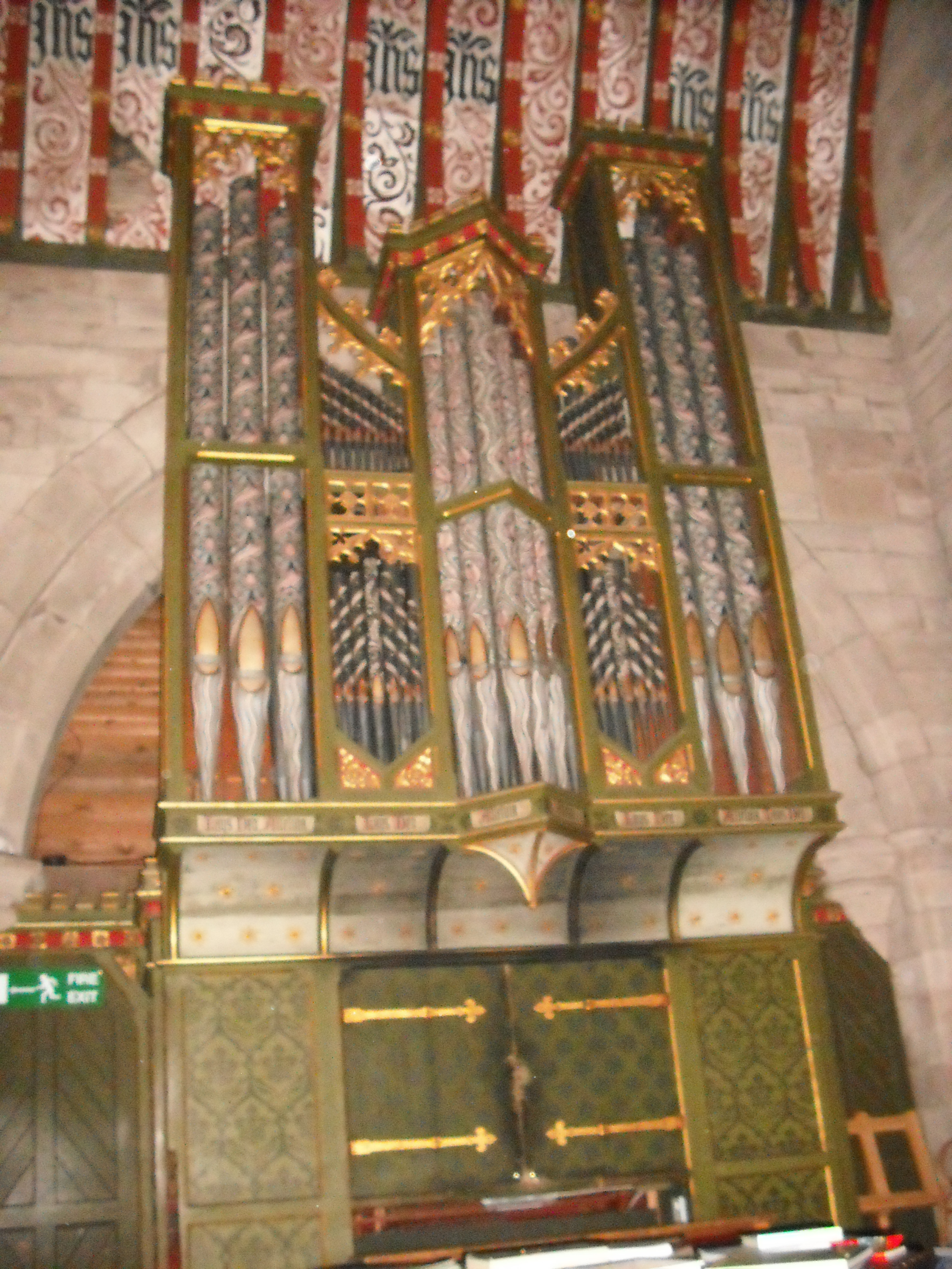 Pipe organ in St Mary the Virgin parish church, Hanbury, Worcestershire